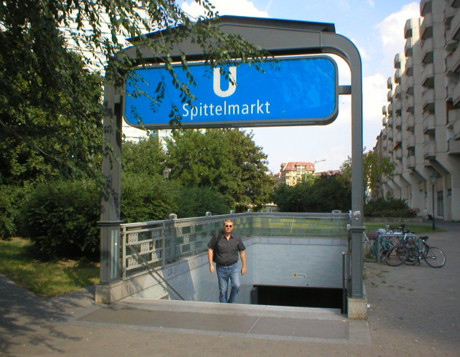 Western entrance to the Berlin U-Bahn station Spittelmarkt